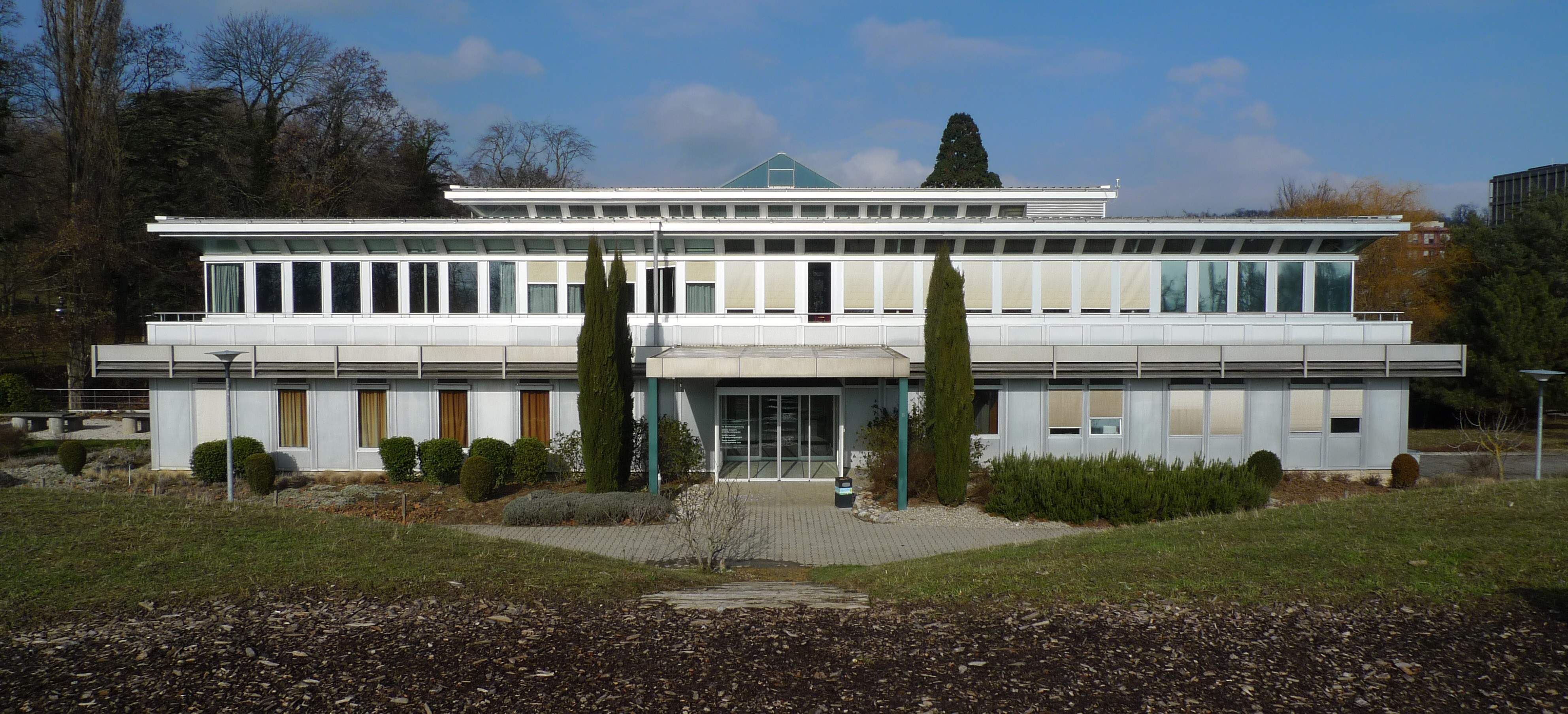 Exterior (south) of the Swiss Institute of Comparative Law, Lausanne.